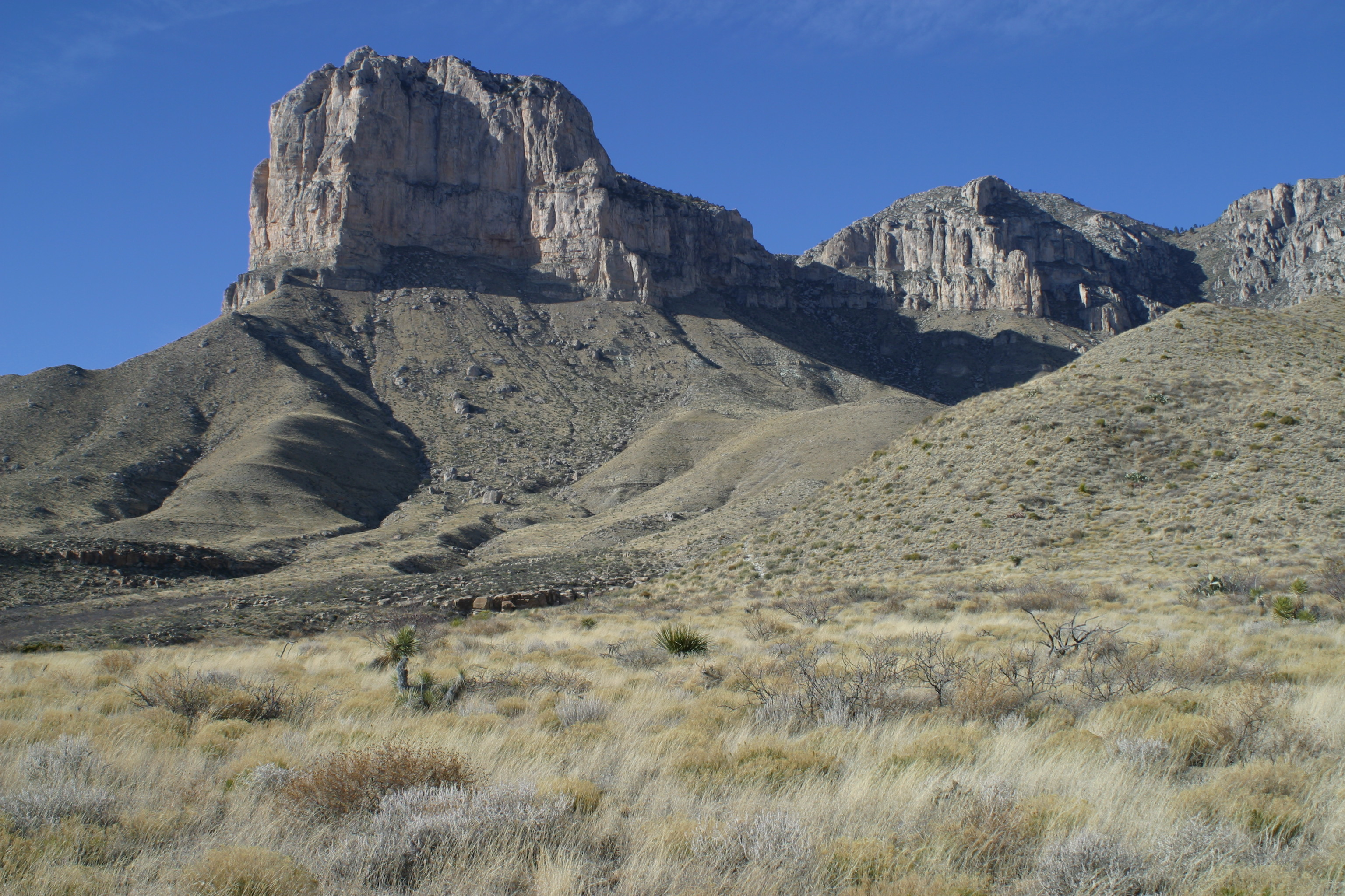 El Capitan in the Guadalupe Mountains, Culberson County, Texas.